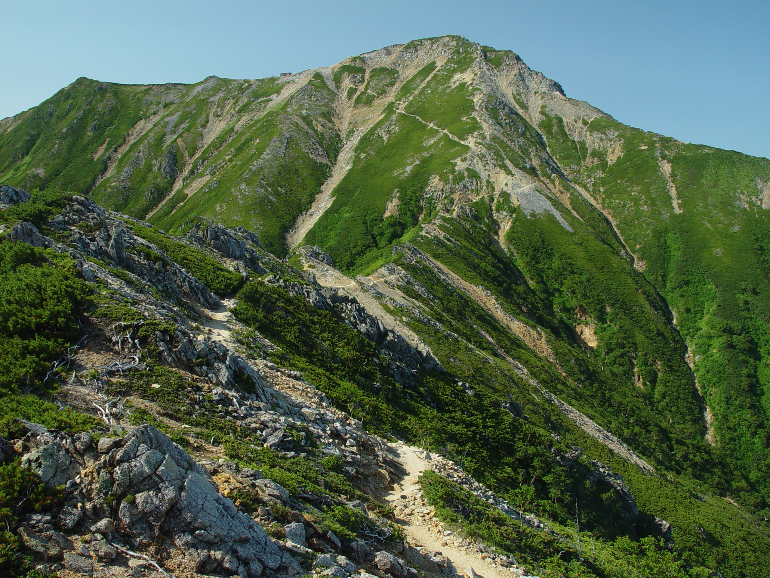 Mount Otensho from north